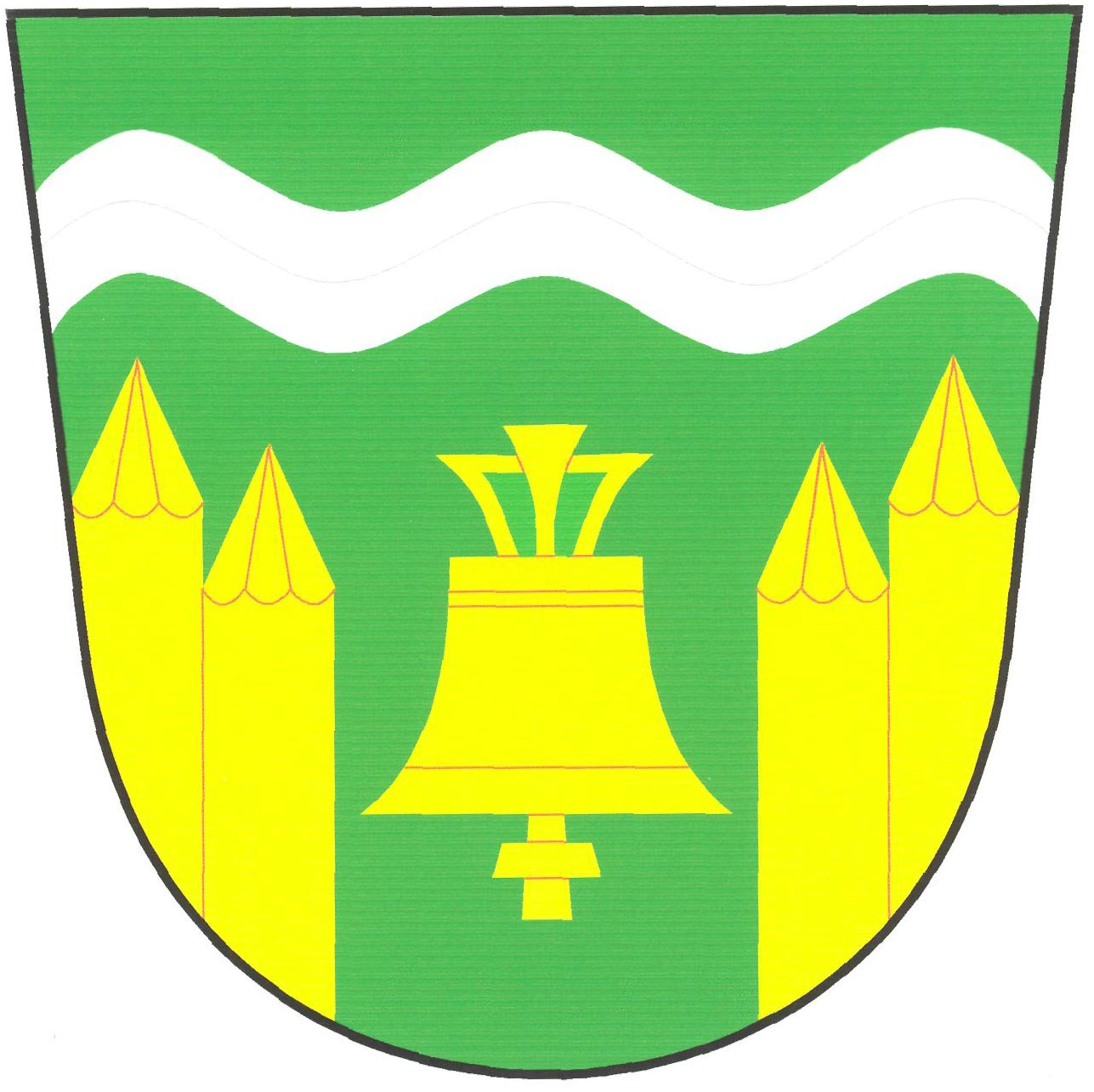 Municipal coat of arms of Bratřínov village, Prague-West District, Czech Republic.